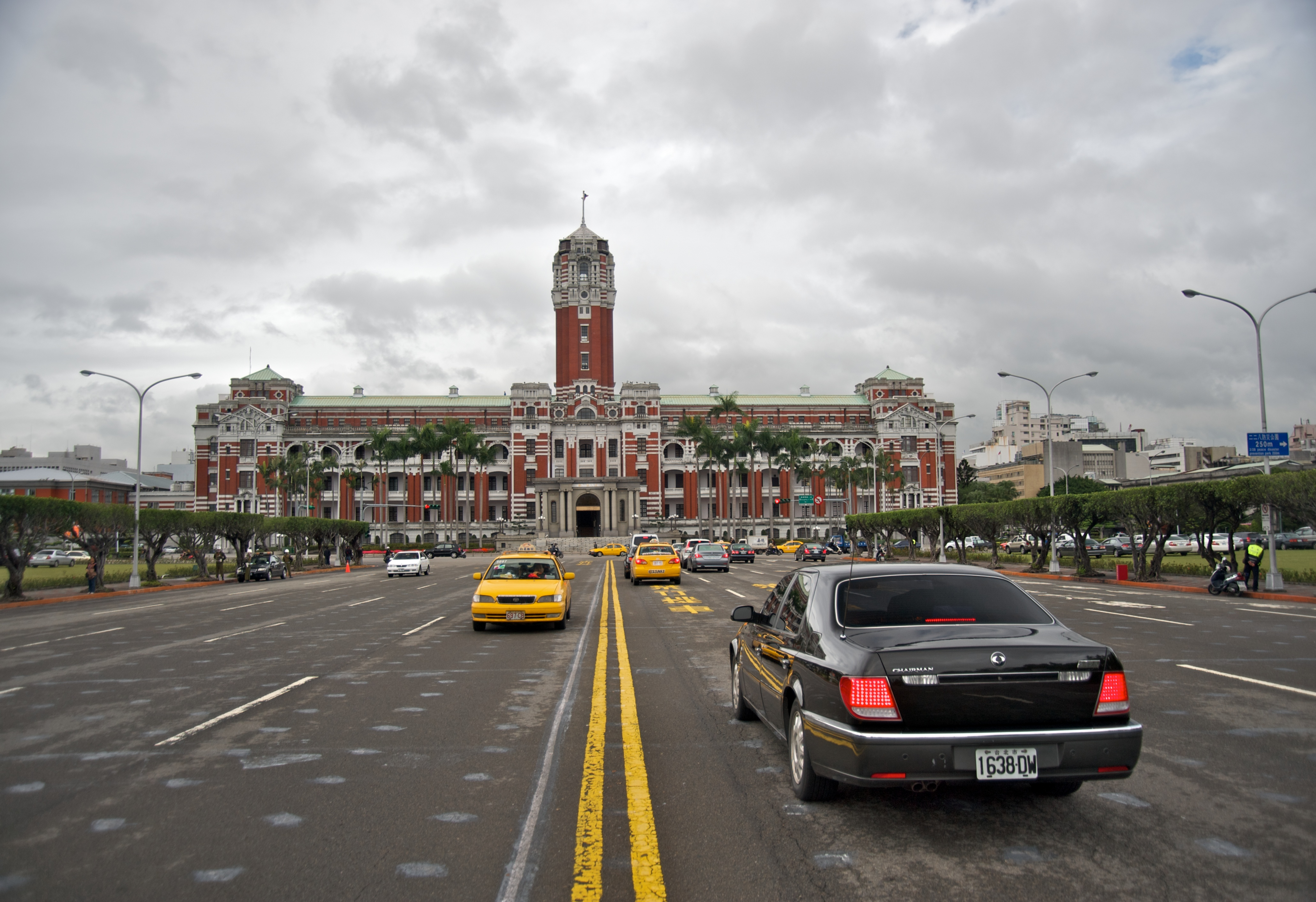 Presidential Palace in Taipei, Taiwan